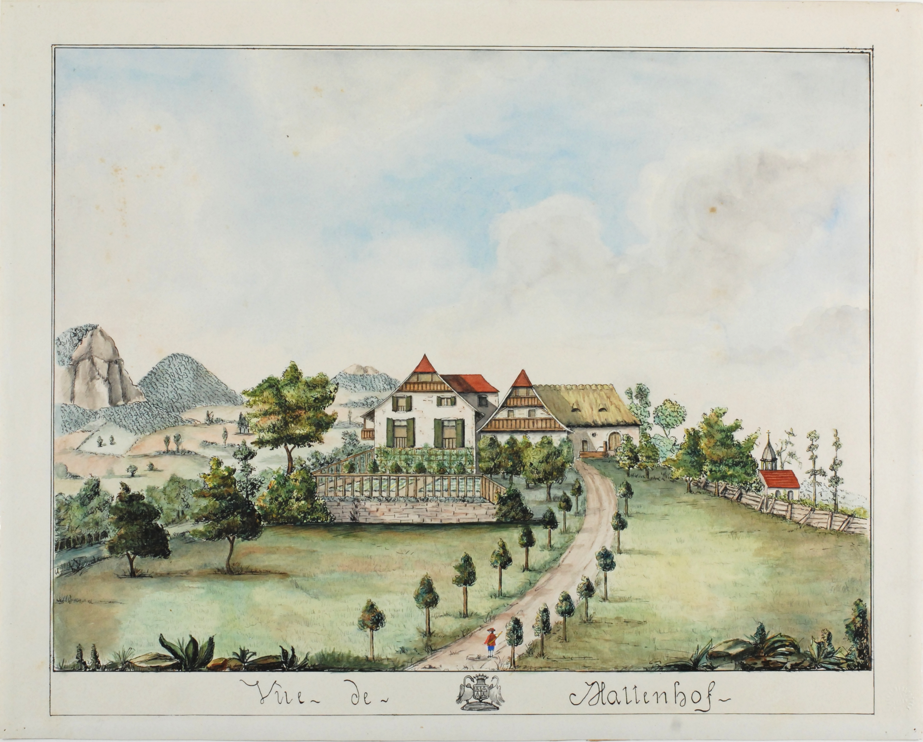 View of the Mittlerer Mattenhof estate with chapel and garden, in Kammersrohr, canton of Solothurn, Switzerland. Watercoloured pen drawing, ca. 1800-1830, copy after an 18th century veduta. From the art print collection of the Central Library of Solothurn, call number aa0554.